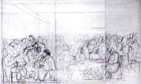 kuenstlerleben-in-rom, entwurf